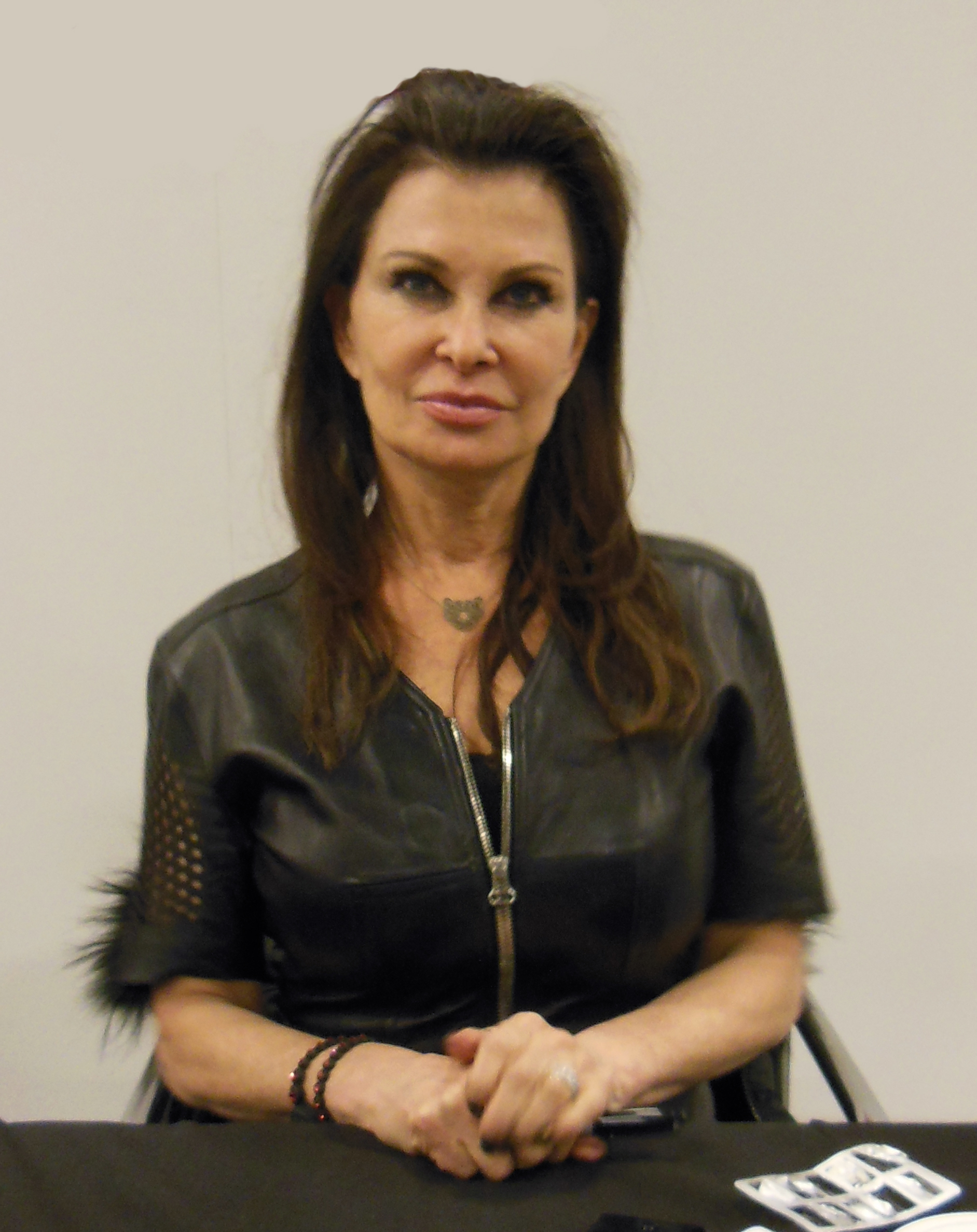 Jane Badler at the Sci-Fi-fare in Malmö 2014